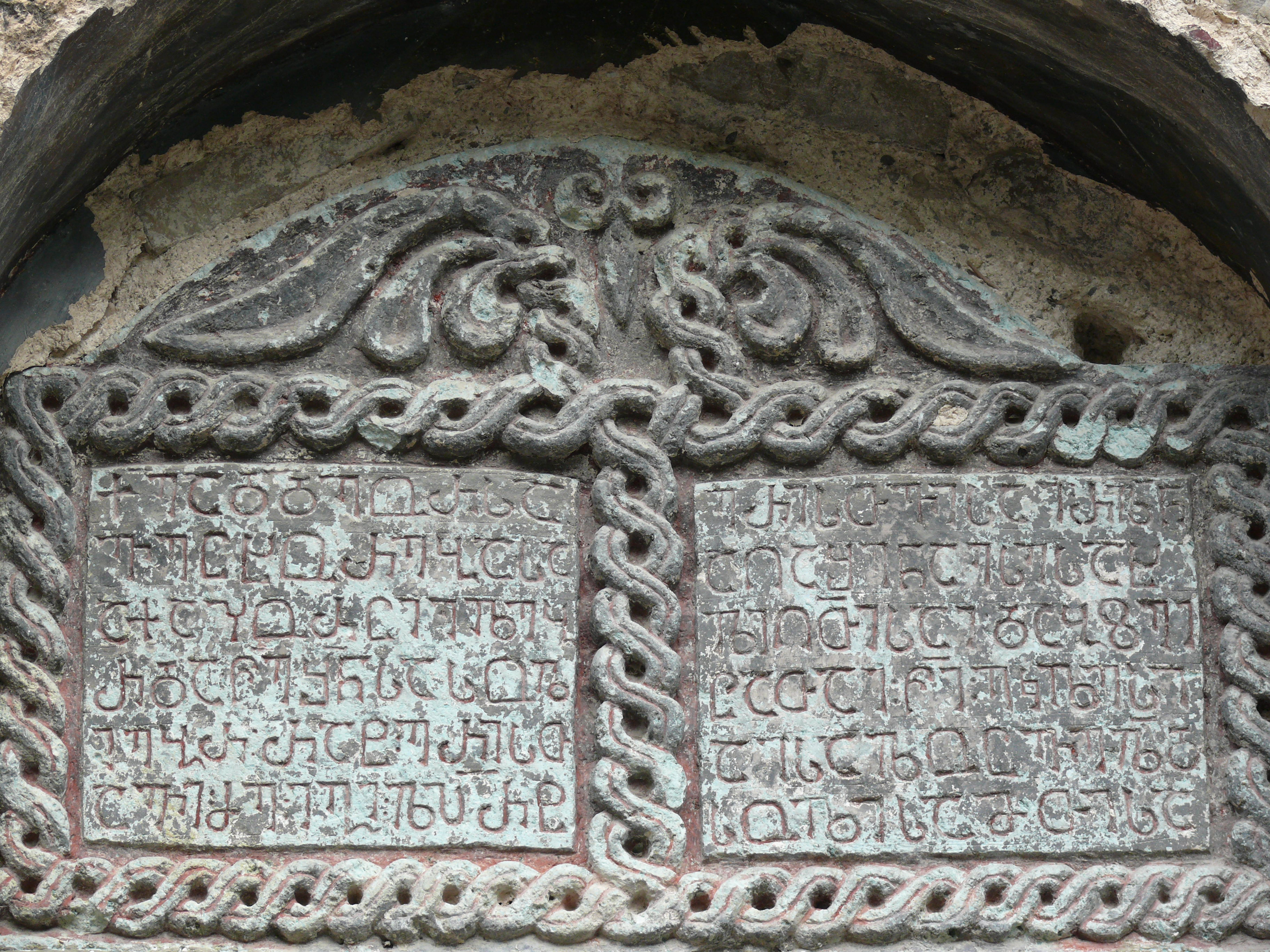 Inscription on the Ateni Church